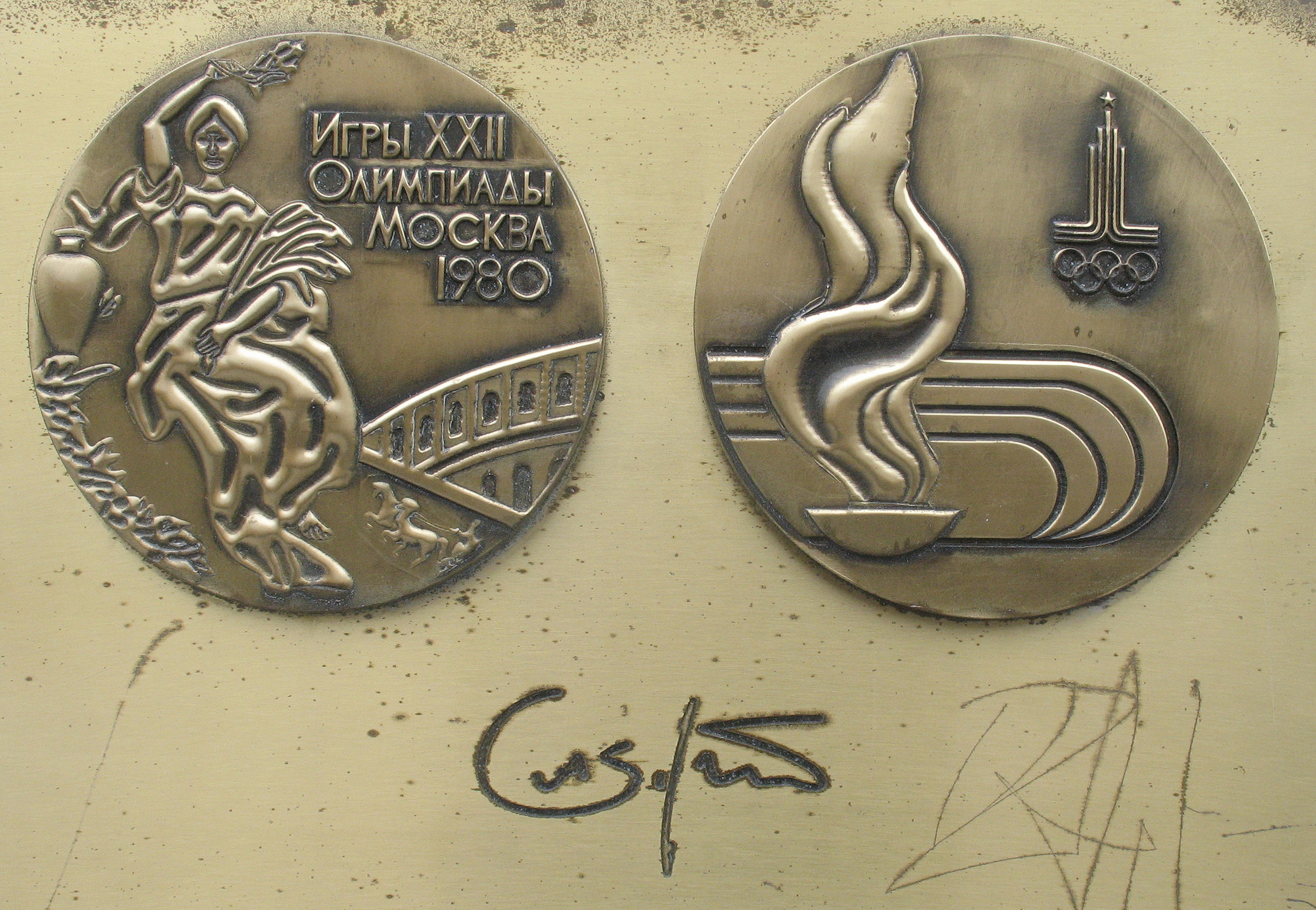 Andrzej Supron medal & autograph in Avenue of Sport Stars Dziwnów